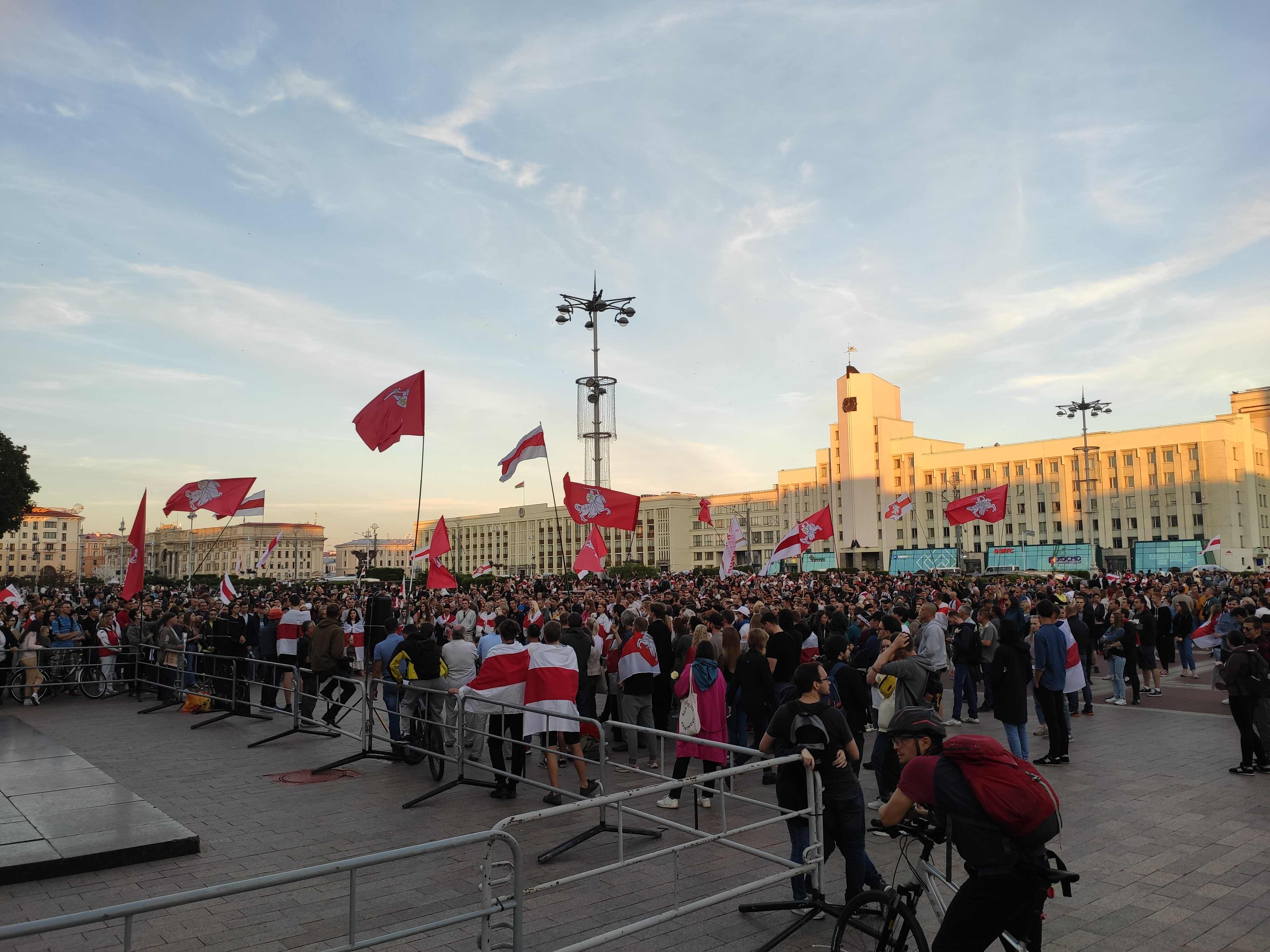 Protest against Alexander Lukashenko in Minsk on Aug 22, 2020